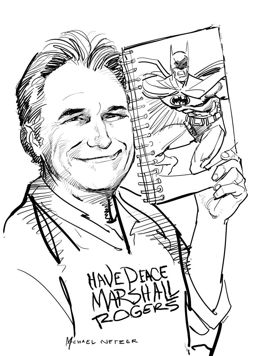 A portrait Illustration of comics artist Marshall Rogers by colleague Michael Netzer for his Portraits of the Creators Sketchbook, produced in Rogers' memory soon after his death.